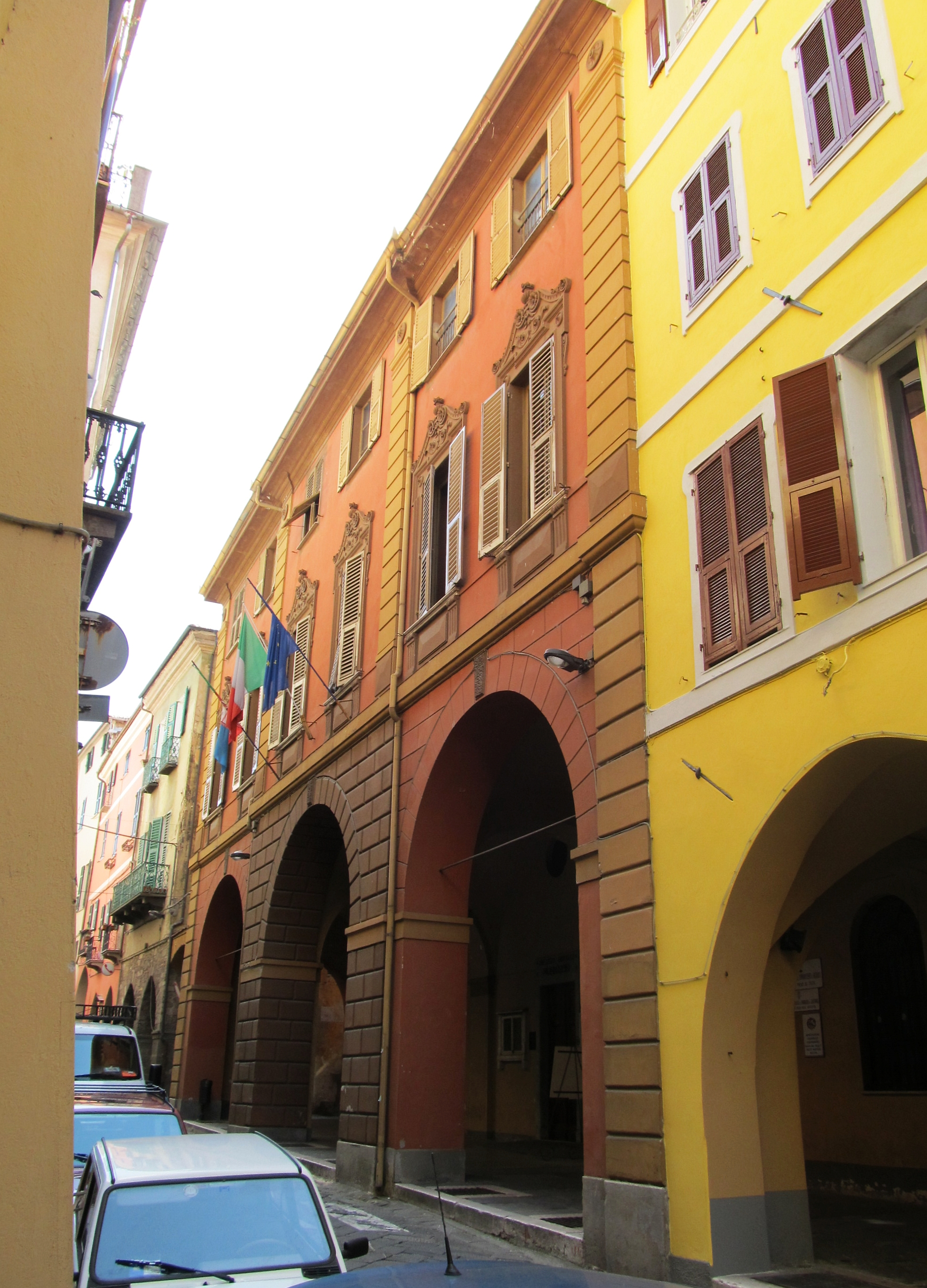 Pieve di Teco (IM, Italy): town hall